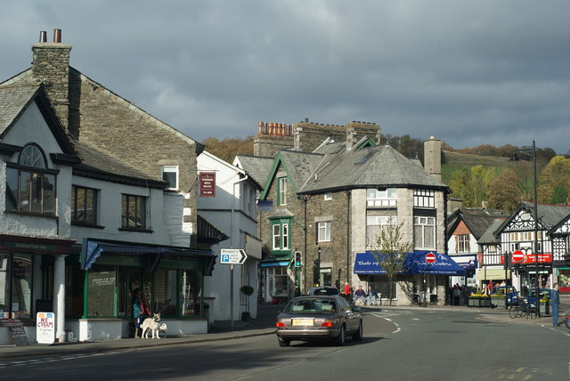 Main Road, Windermere. Main Road continues to the left, with Crescent Road coming in from the right. Orrest Head can just be seen on the skyline.